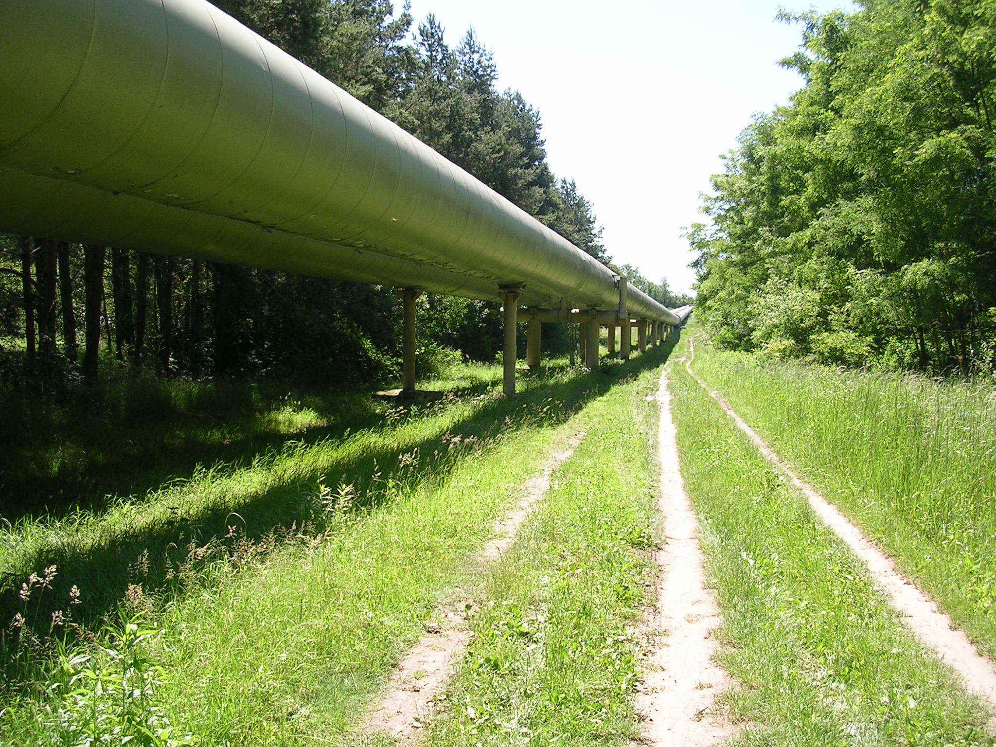 Cítov, Mělník District, the Czech Republic. The heating pipeline from Mělník Power Plant to Prague.